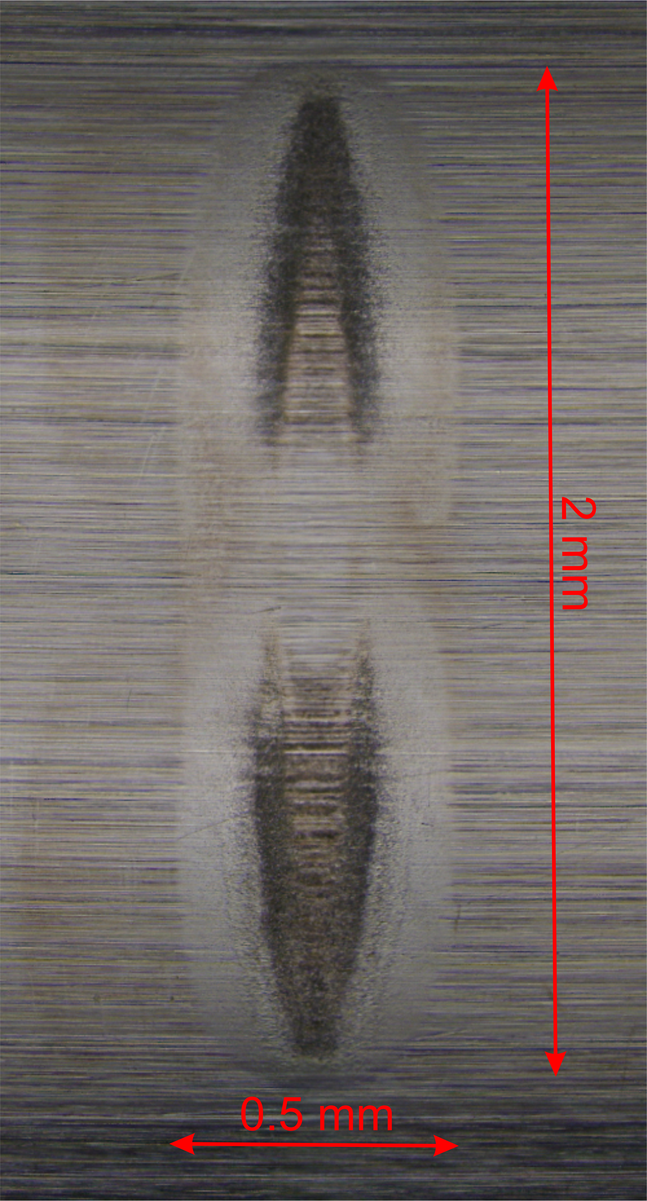 Microscopy of a false brinelling damaged bearing raceway